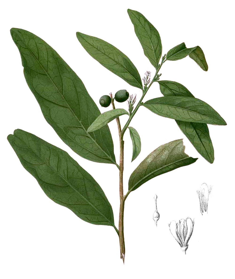 Olax imbricata Plate from book